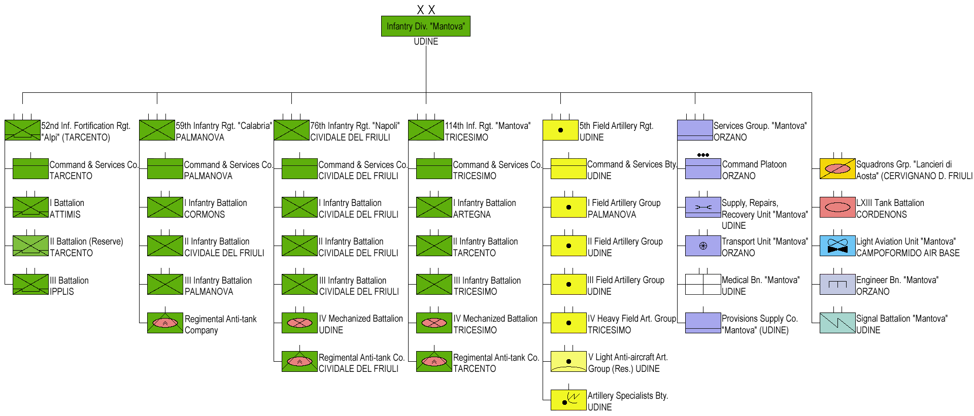 Structure of the Italian Army Infantry Division "Mantova" in 1974